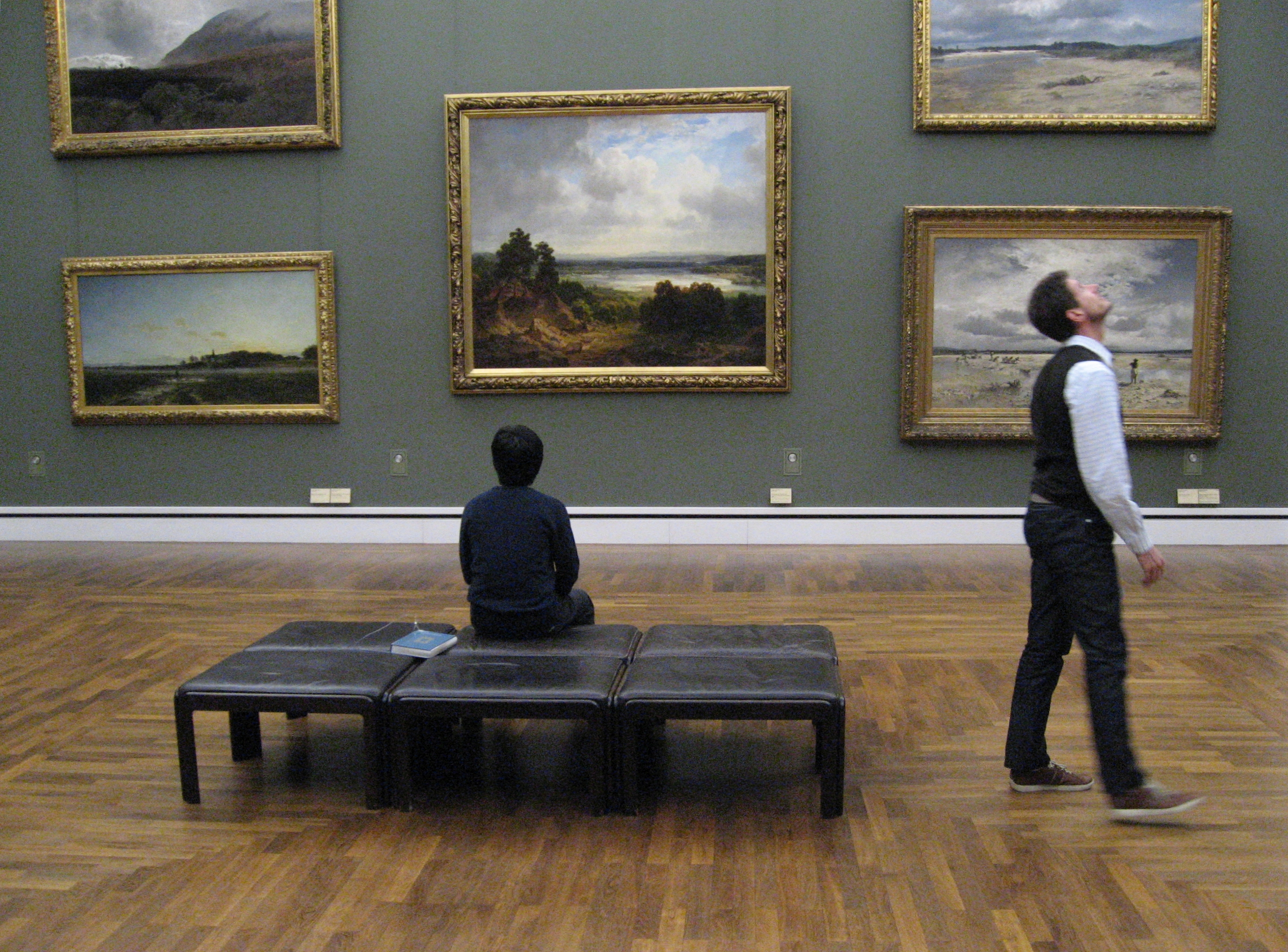 Interior view of one of the rooms of the Neue Pinakothek in Munich.